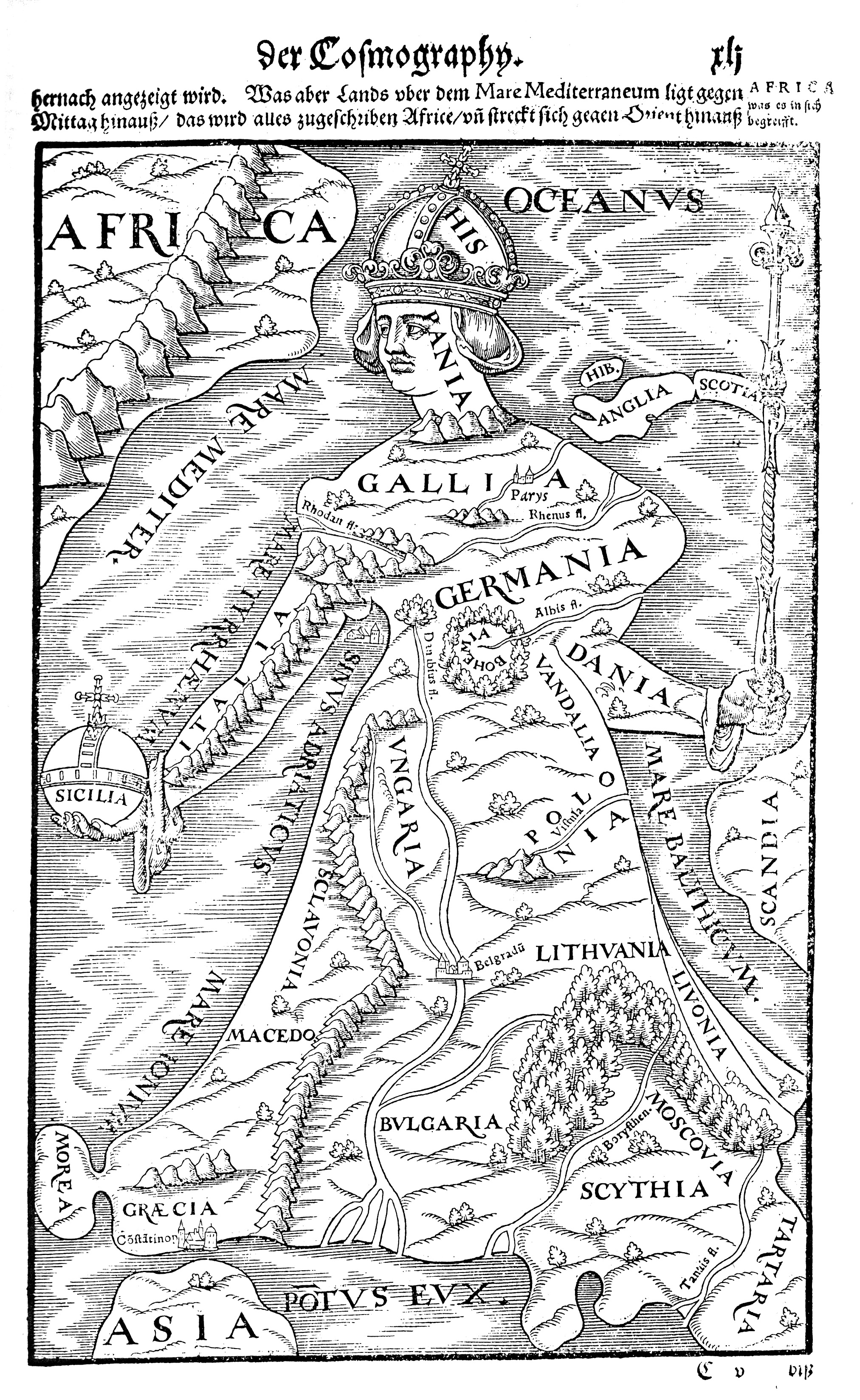 Map of Europa depicted as a queen by Sebastian Münster, 1628